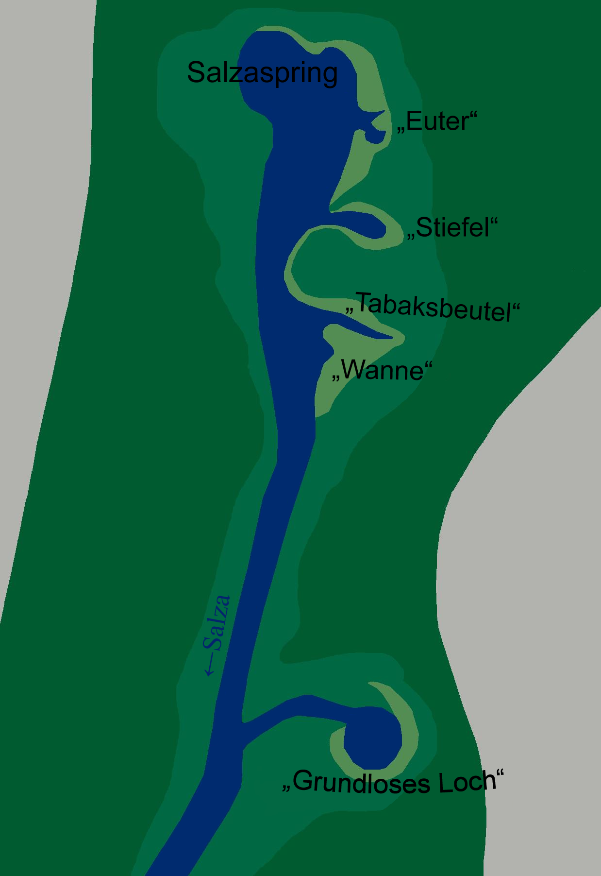 Map of Salzaspring